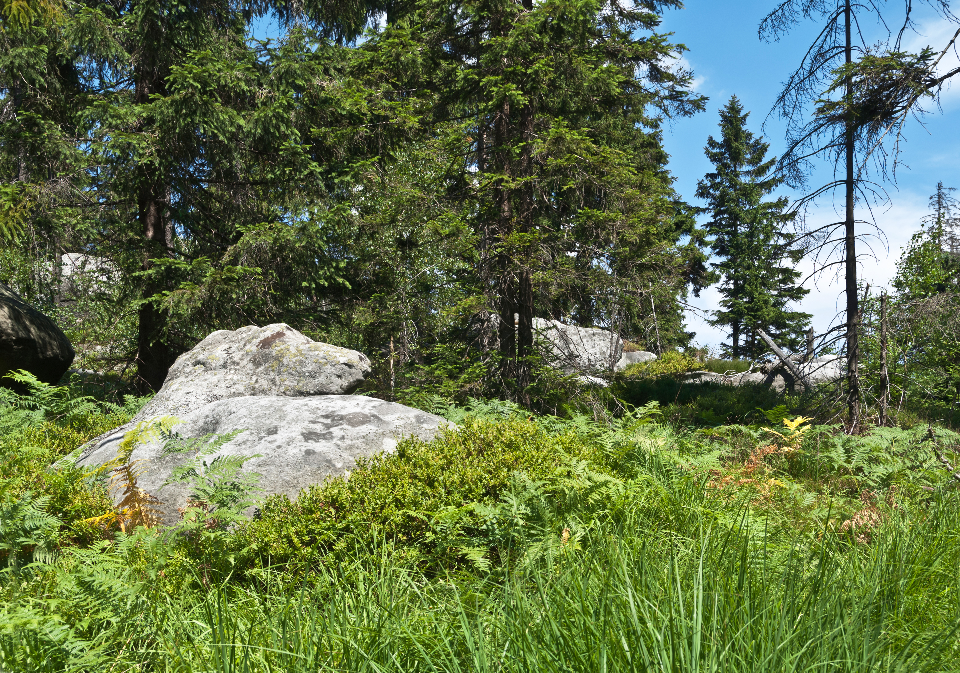 Stołowe Mountans